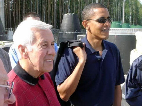 Senate Foreign Relations Committee Chairman Richard Lugar and Committee member Barack Obama at a base near Perm, Russia. This is where mobile launch missiles are being destroyed by the Nunn-Lugar program.